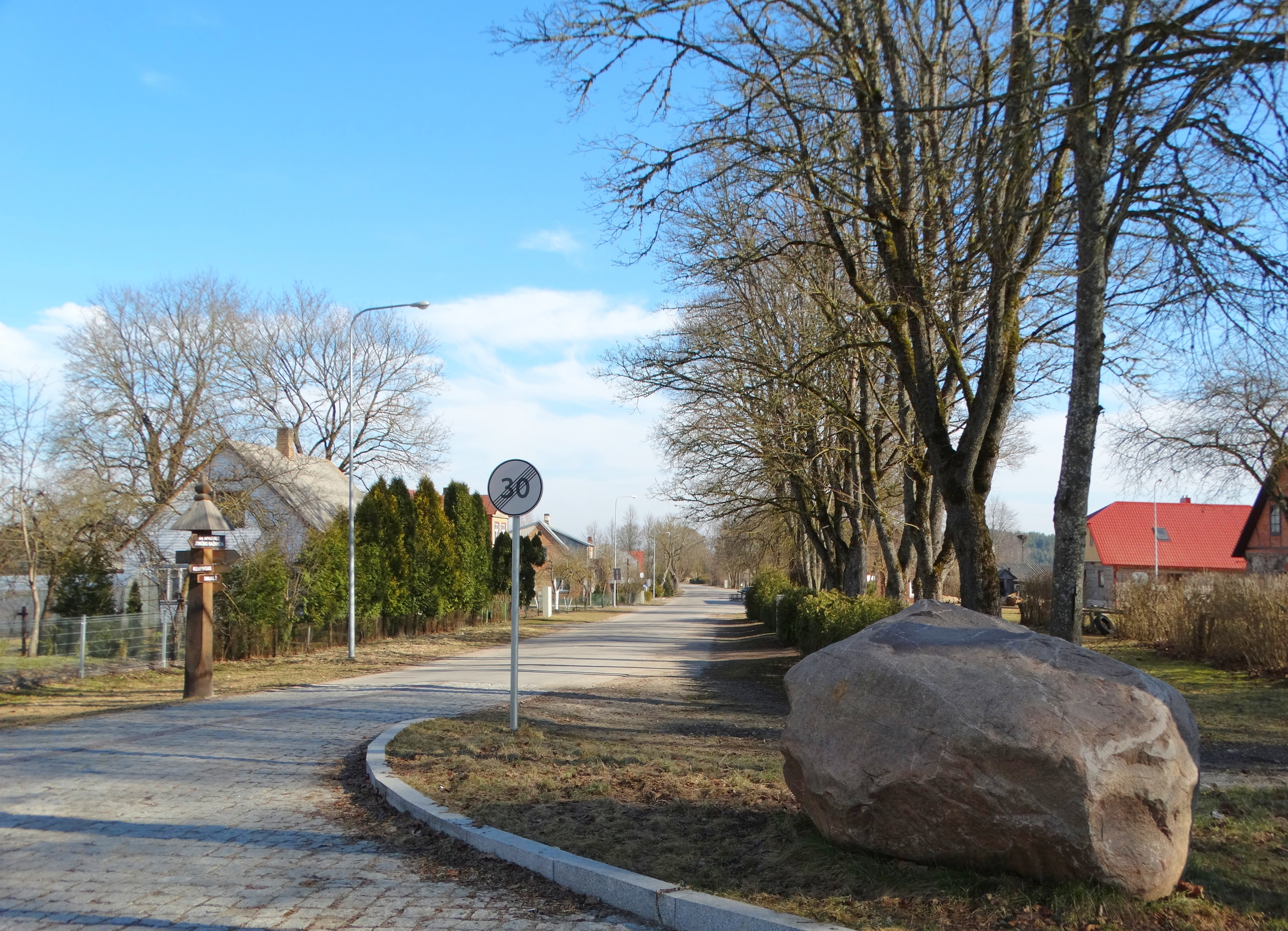 Kurtuvėnai, Šiauliai district, Lithuania